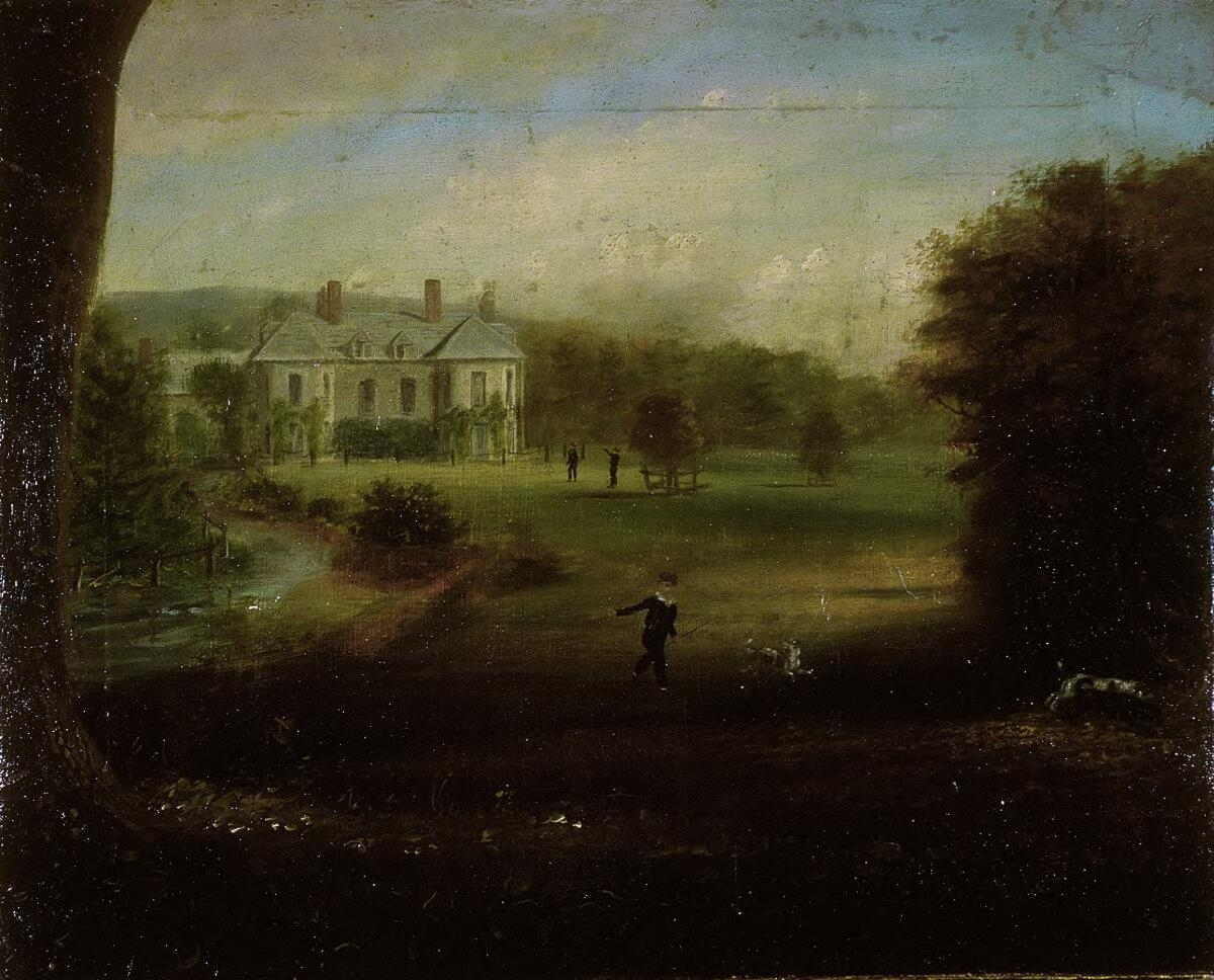 A painting from the Framed Works of Art collection at the National Library of wales.